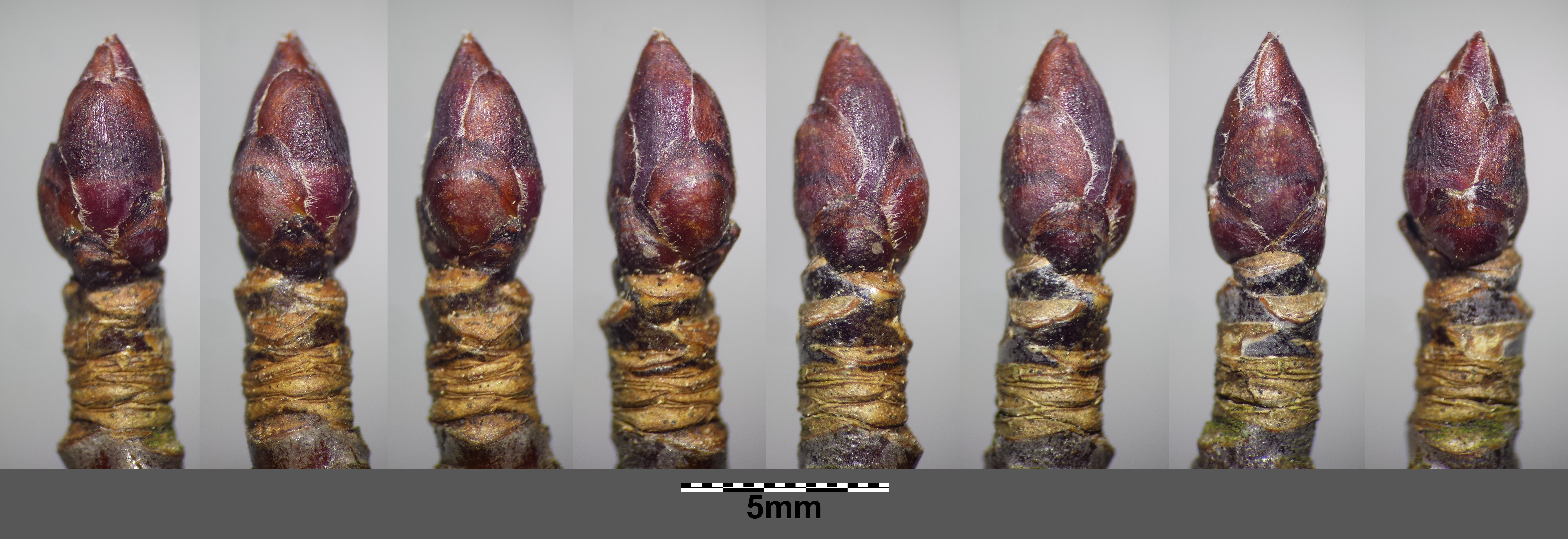 Bud on short shoot Taxonym: Malus sylvestris ss Fischer et al. EfÖLS 2008 ISBN 978-3-85474-187-9 Location: Rohrwald, district Korneuburg, Lower Austria - ca. 300 m a.s.l. Habitat: Carpinion betuli